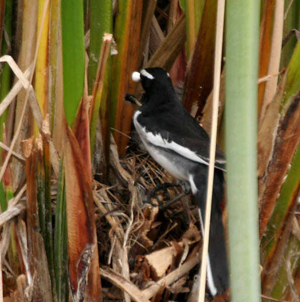 White-browed Wagtail or Large Pied Wagtail Motacilla maderaspatensis in Hyderabad, India.